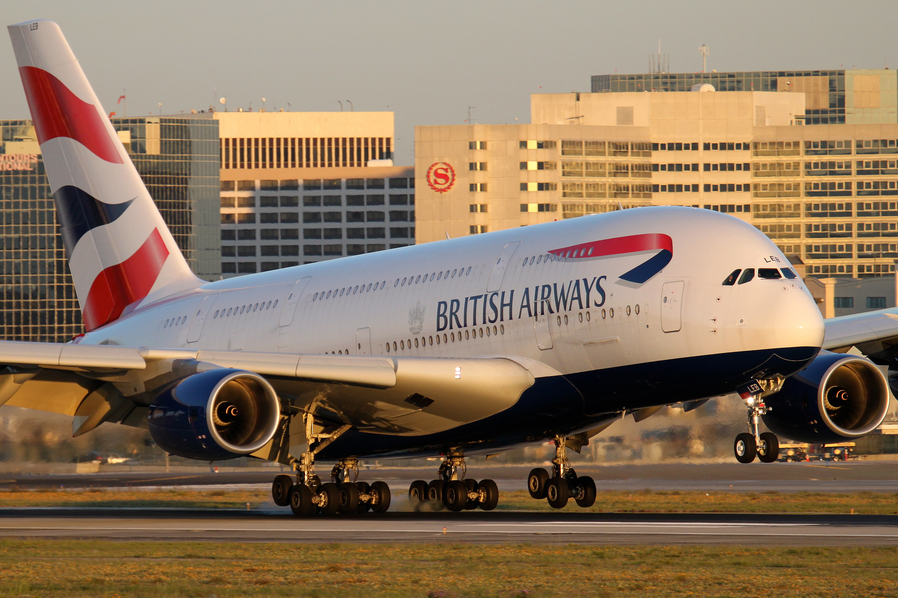 G-XLEB operating at Speedbird 269 landing at LAX runway 24R 4.7.14